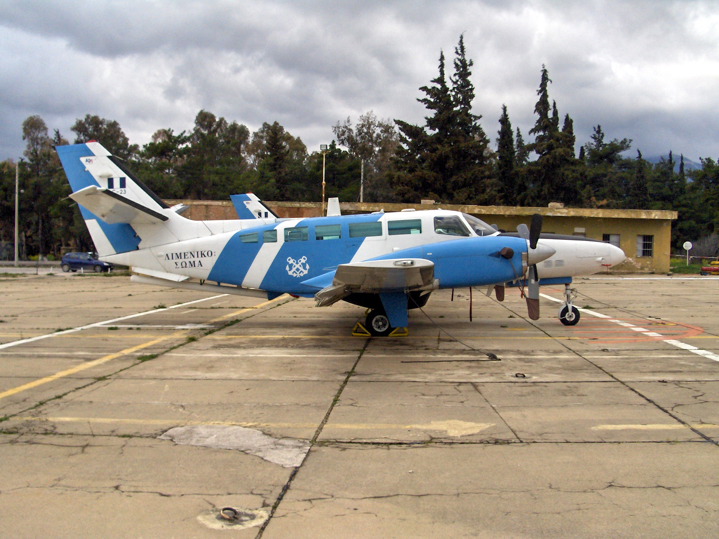 Reims-Cessna F406 of the Hellenic Coast Guard.